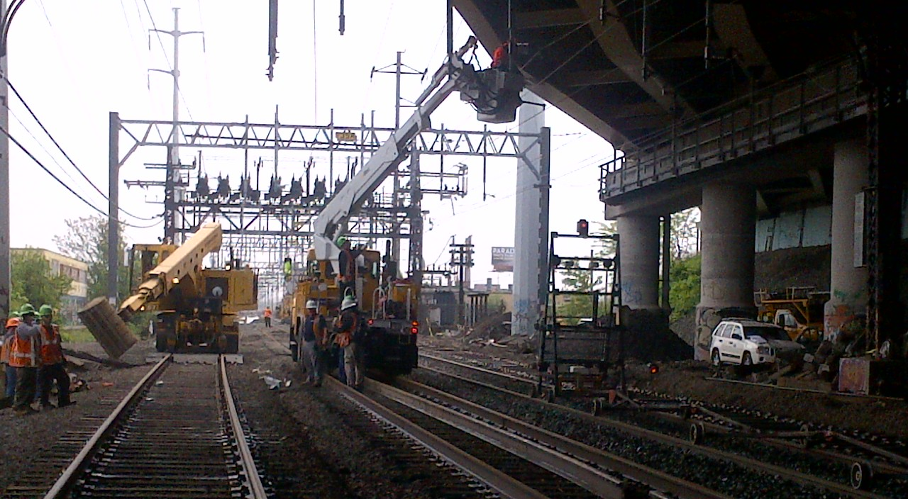 Metro-North Railroad crews worked to rebuild tracks on Monday, May 20, 2013, following a derailment on Friday, May 17. Photo: Metropolitan Transportation Authority / Kevin Ortiz